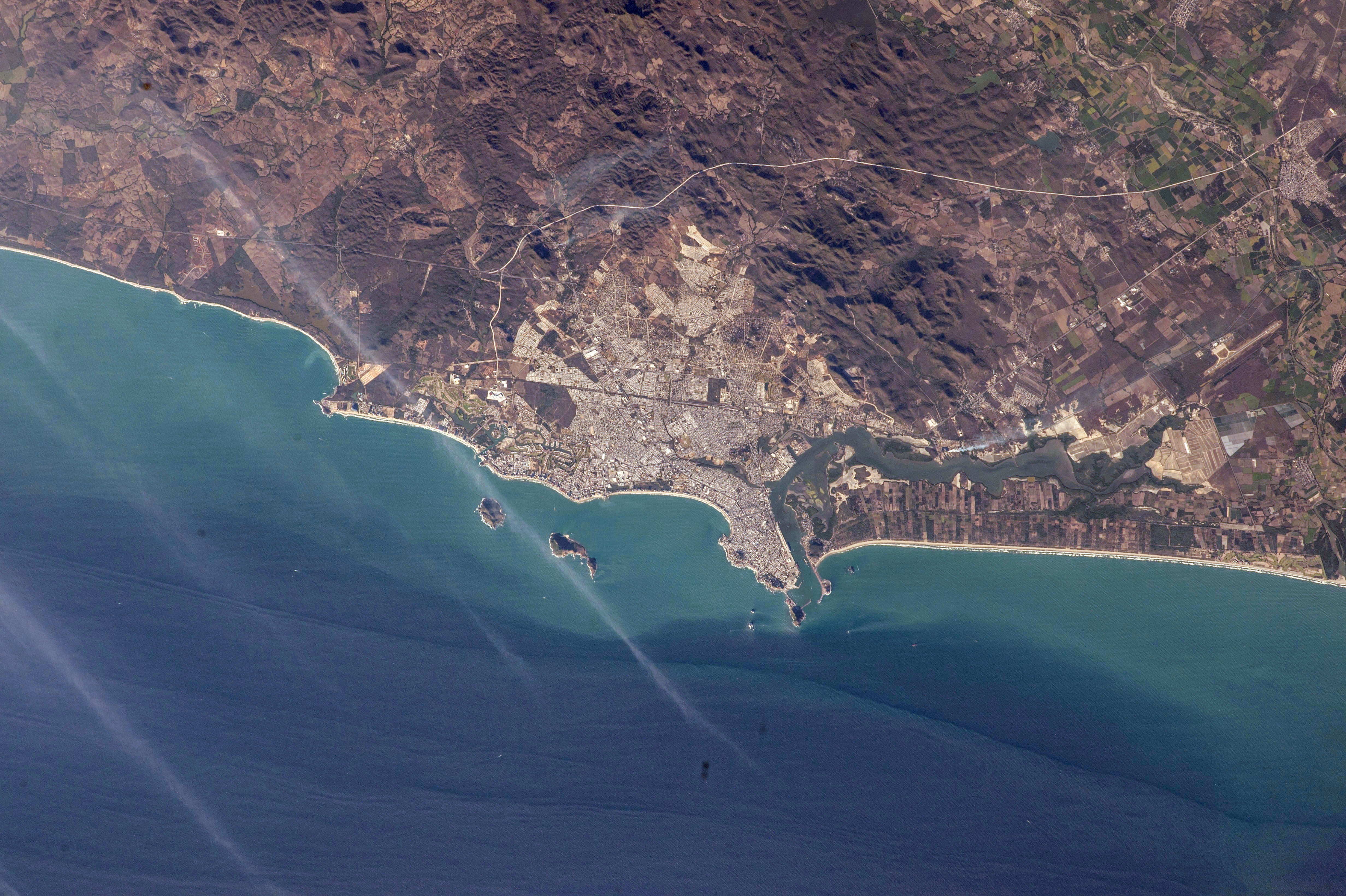 This image of a portion of the Mexican coastal area was taken by crew members aboard the International Space Station. NASA astronaut Tim Kopra tweeted out this comment with the image " Nice #beach town! #Mazatlan on the west coast of @Mexico - 21 km boardwalk. #Explore ".